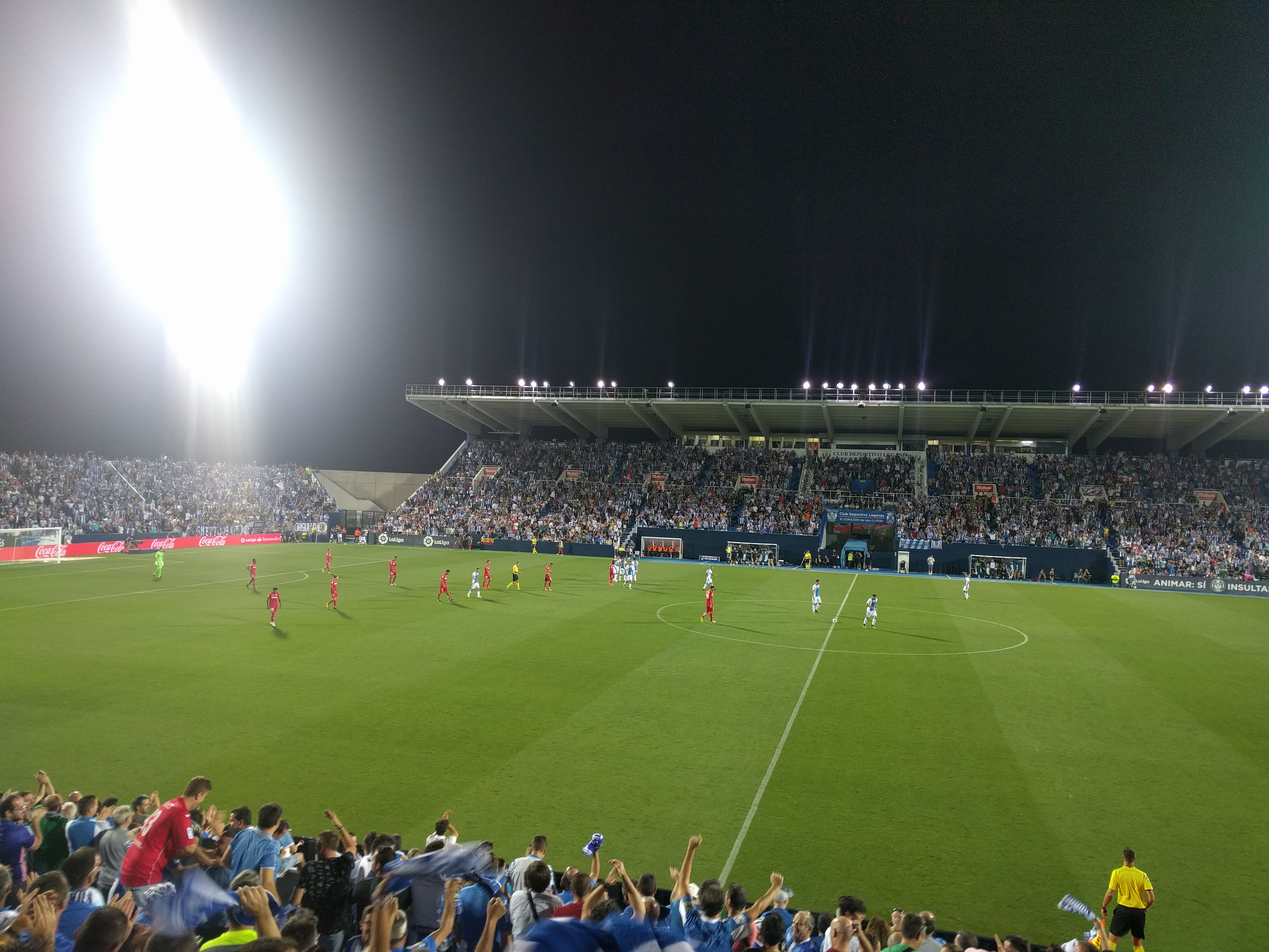 Leganés 1:2 Getafe, 8th September 2017